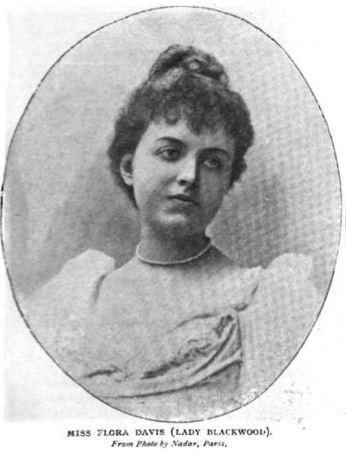 From Photo by Nadar, Paris